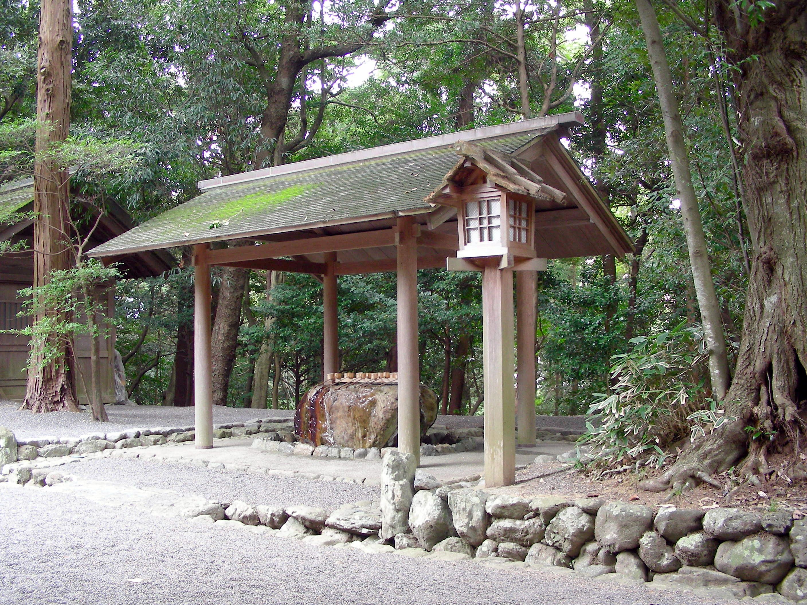 The Temizuya of Betsugu Yamatohime-no-miya Sanctuary of Kotaijingu(Naiku) at Ise city, Mie Prf., Japan.